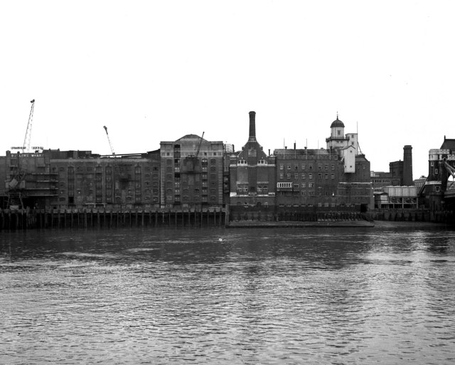 Courage Brewery, Horseleydown This view across the Thames just downstream of Tower Bridge has changed out of all recognition since this photograph was taken in 1971. At the left is Butler's Wharf, then centrally we see the Courage Brewery with its stylish chimney. At the extreme right is a fraction of the southern end of Tower Bridge. In Victorian times, this area of the south bank was known as Horseleydown, so I have used this in the title. In modern parlance, it is a part of Bermondsey.